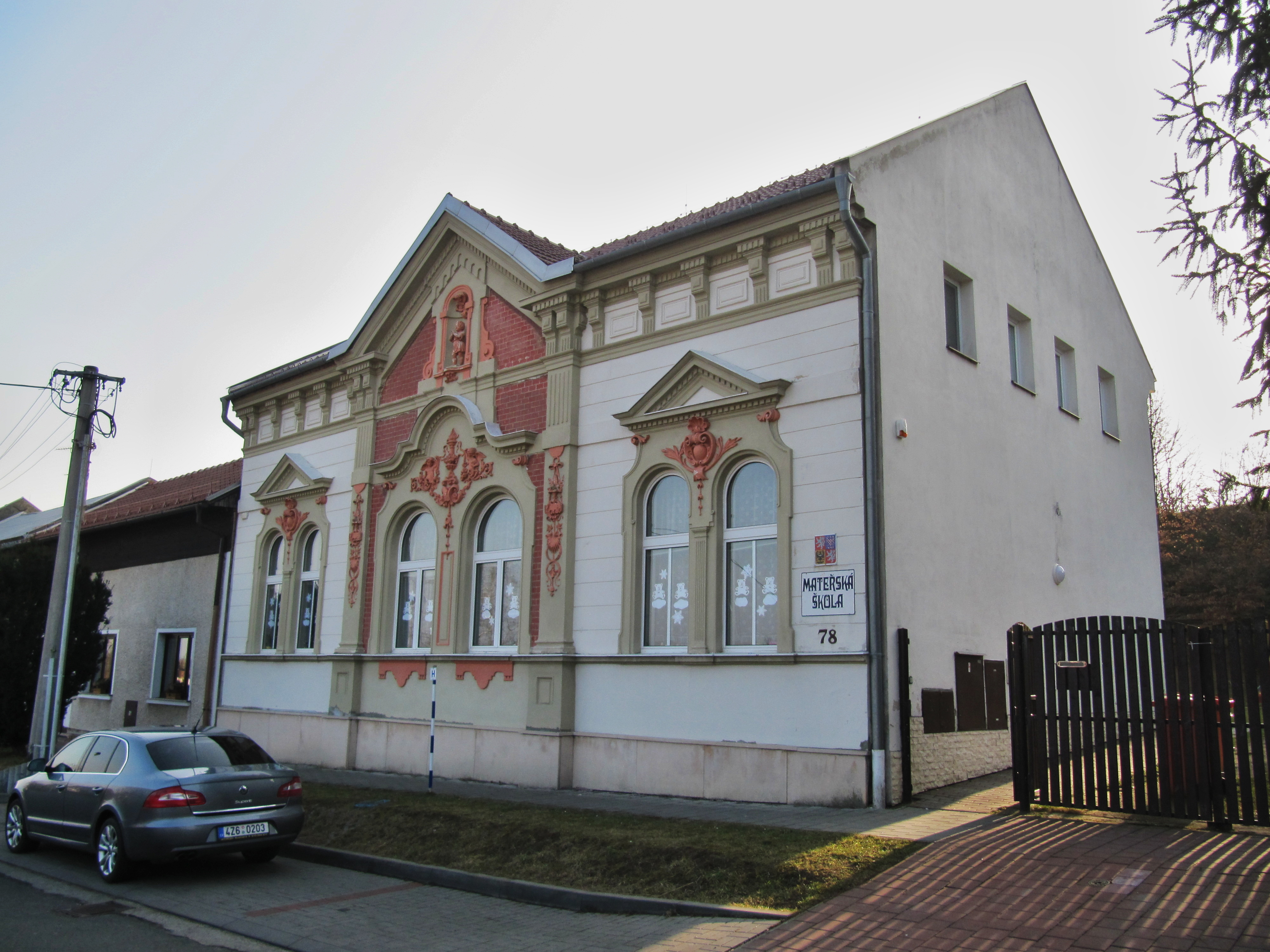 Kroměříž, Czech Republic, part Postoupky.